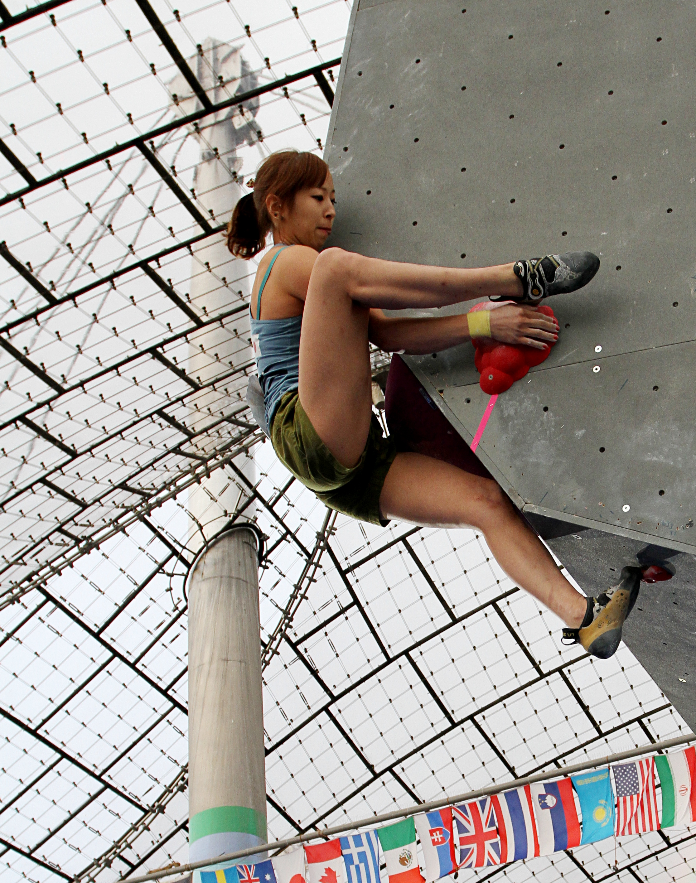 Category:Akiyo Noguchi, JPN at the Boulder Worldcup 2012, Munich.